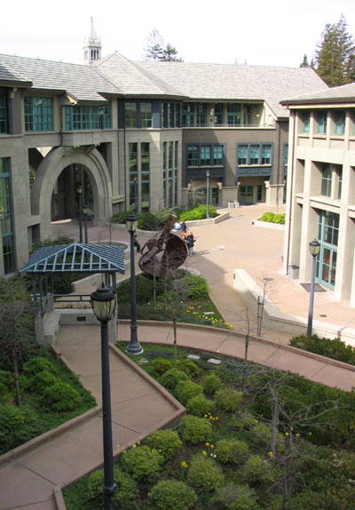 Central courtyard, Haas School of Business, UC Berkeley. Photo taken by User:Minesweeper on March 3, 2004 and released into the public domain.